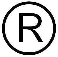 Symbol ®, Trademark in Brazil.